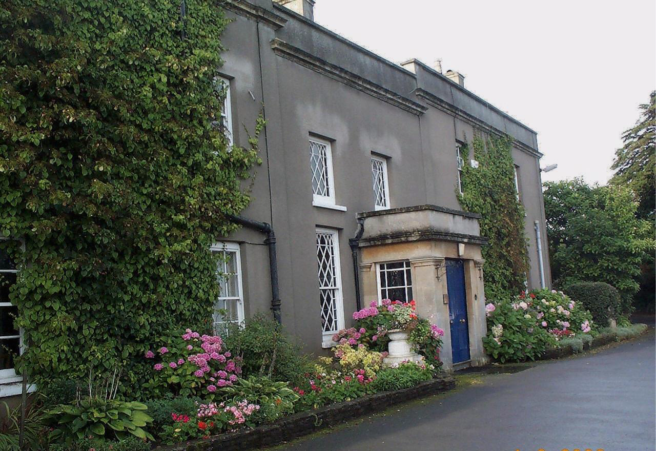 Winterbourne House